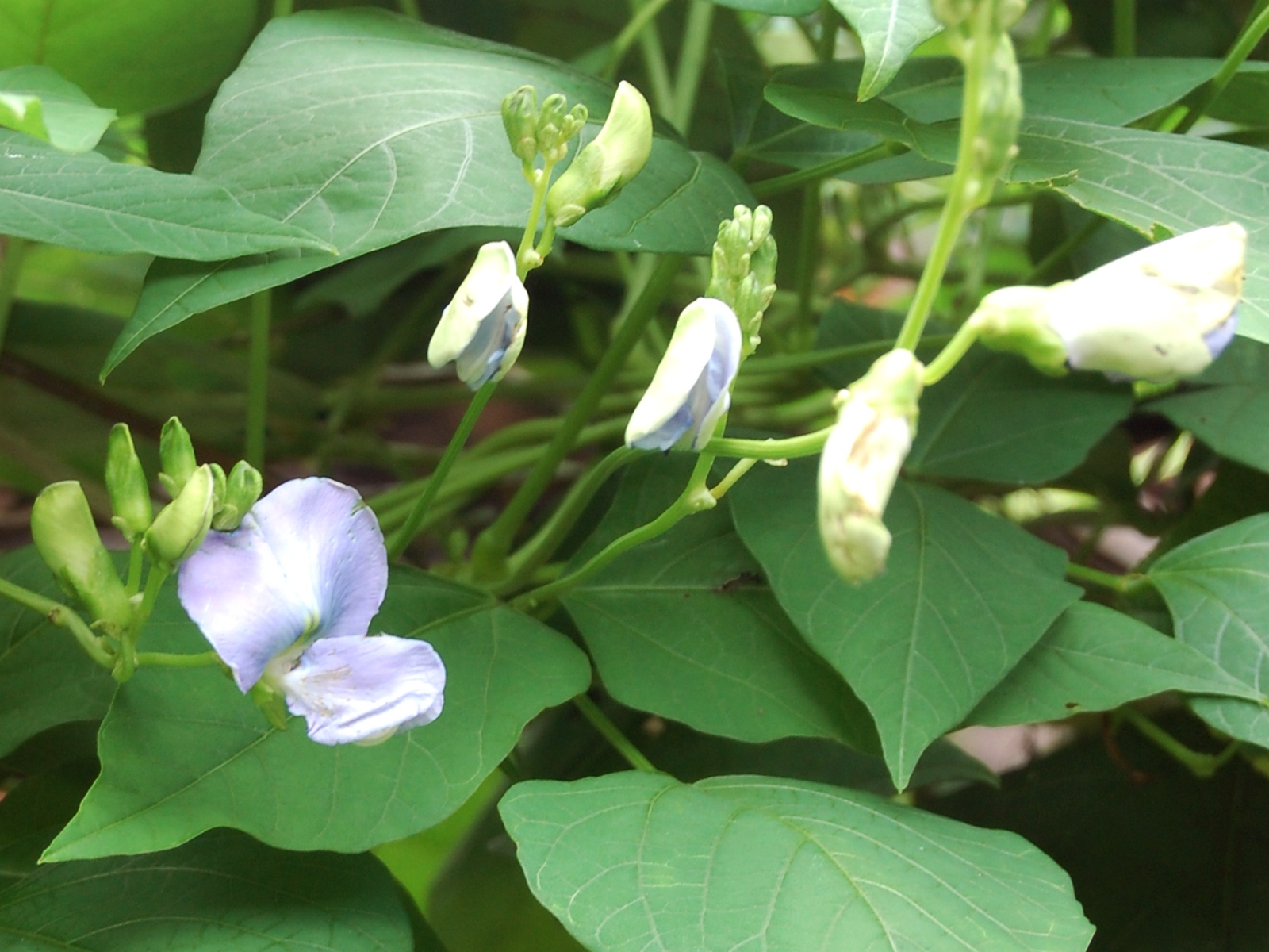 Psophocarpus tetragonolobus flowers and inflorescences. Kuningan, West Java, Indonesia.